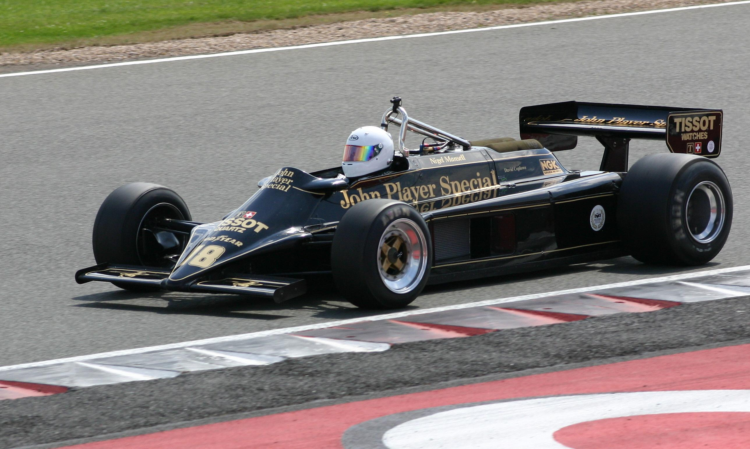 The Lotus 87 at the 2008 Silverstone Classic race meeting.